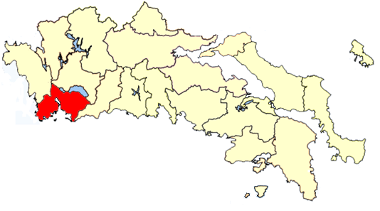 Messolonghi province